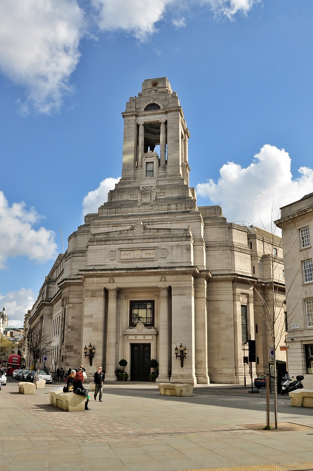 Freemasons’ Hall, headquarters of the United Grand Lodge of England, located in Great Queen Street. Note Camden benches.